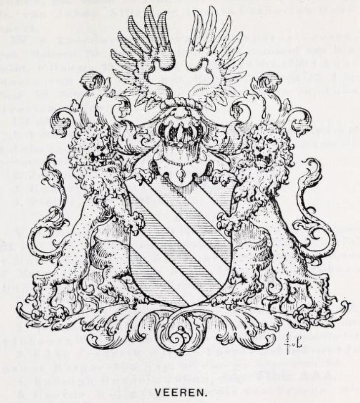 Coat of arms, Netherland. Family Veeren. 1911